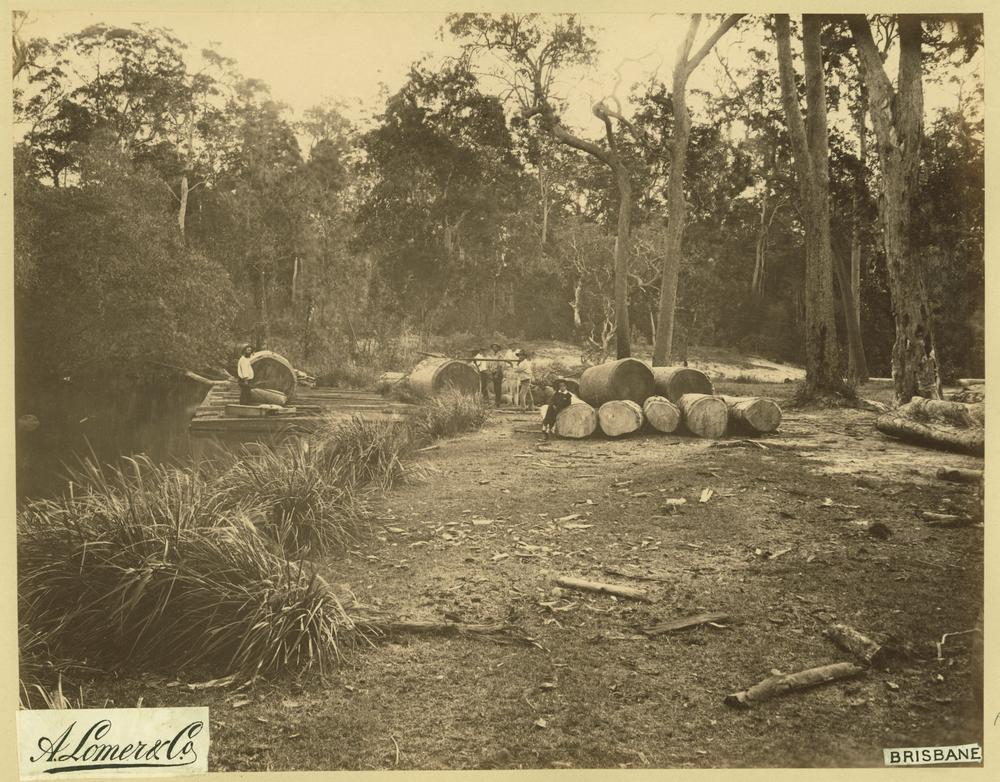 Preparing logs for rafting on the Noosa River, Noosa, 1889